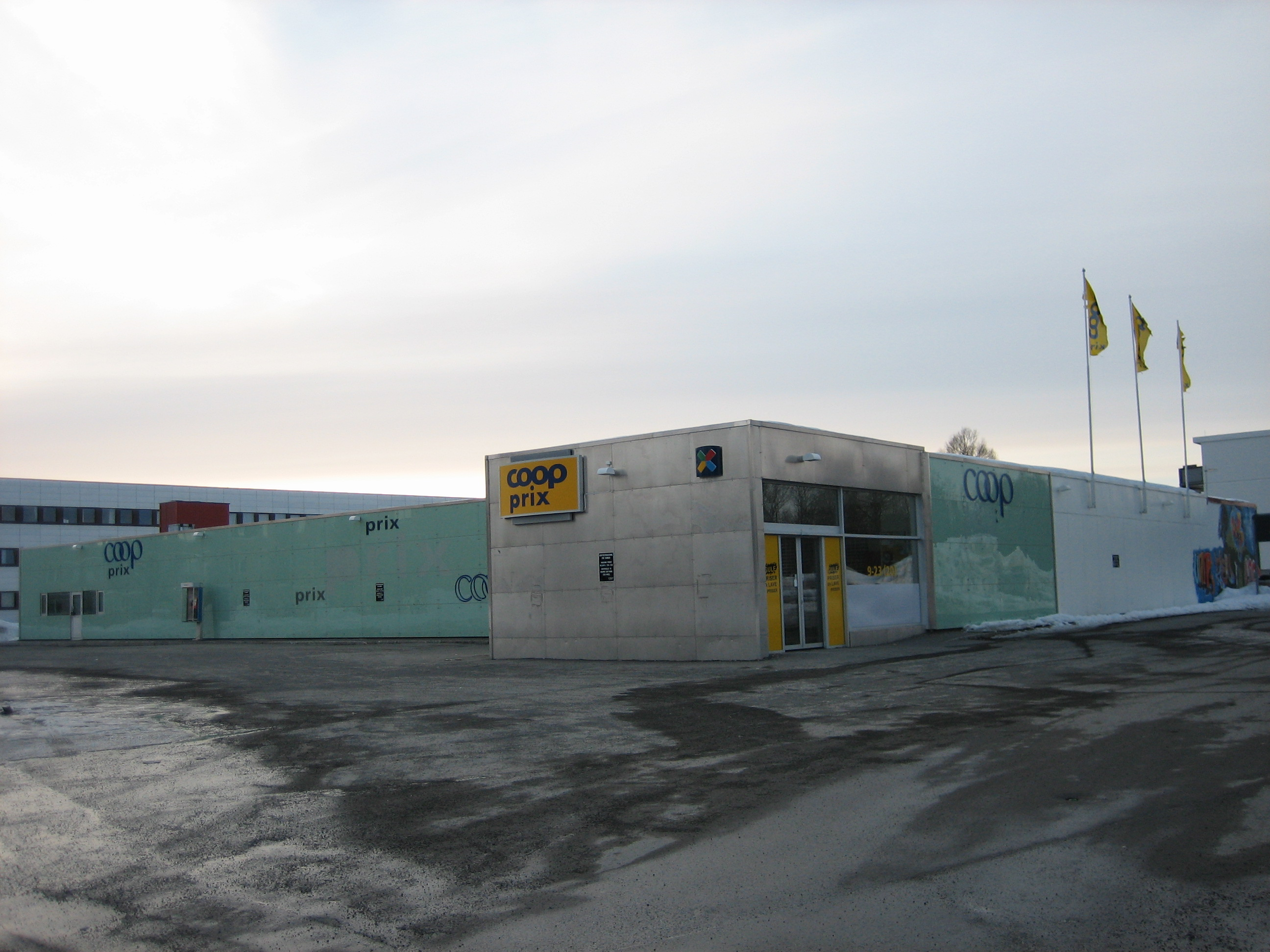 A Coop Prix store at Elverhøy in Tromsø, Norway